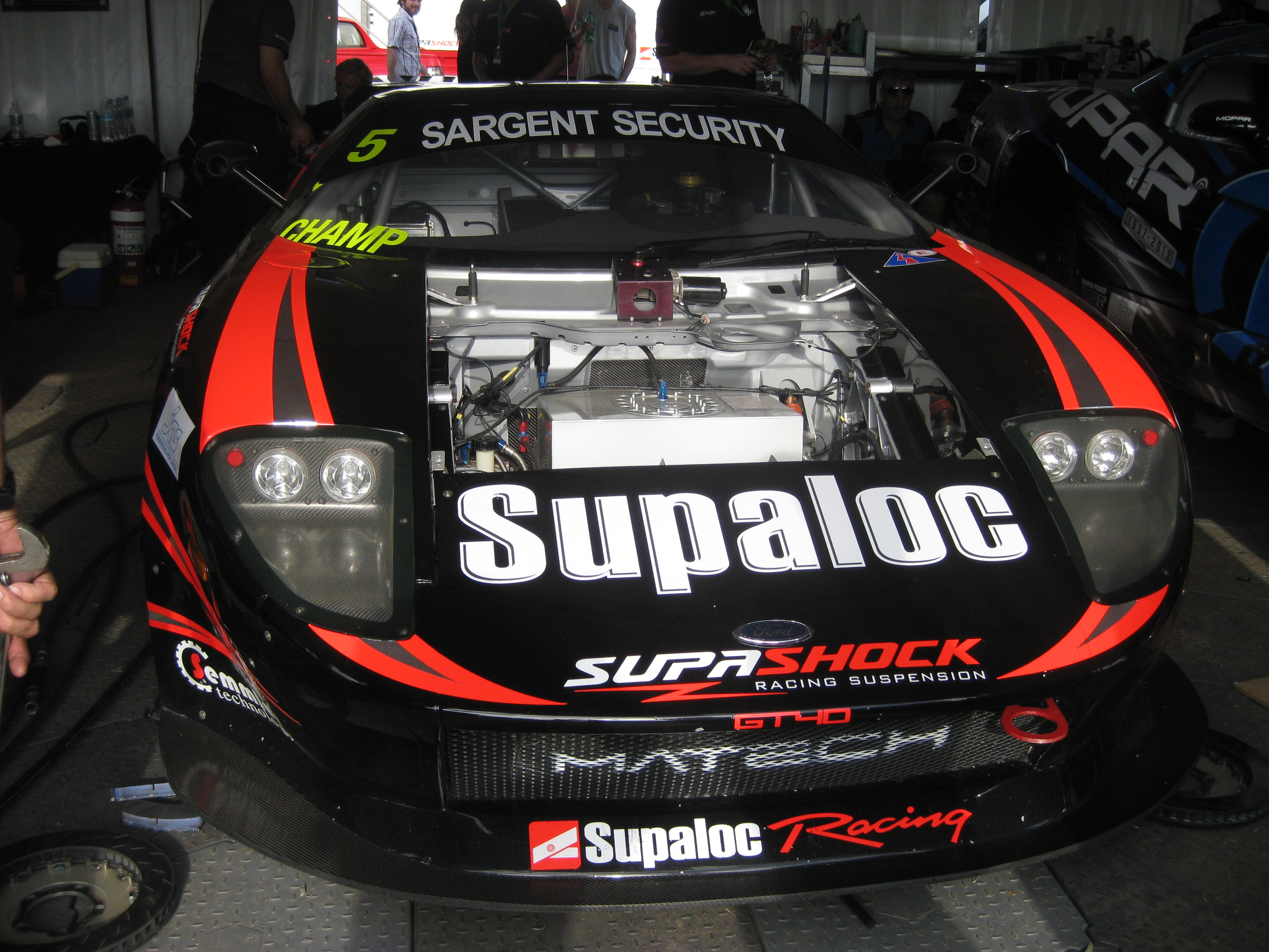 The Ford GT of Kevin Weeks at the Adelaide Parklands Circuit for the opening round of the 2012 Australian GT Championship